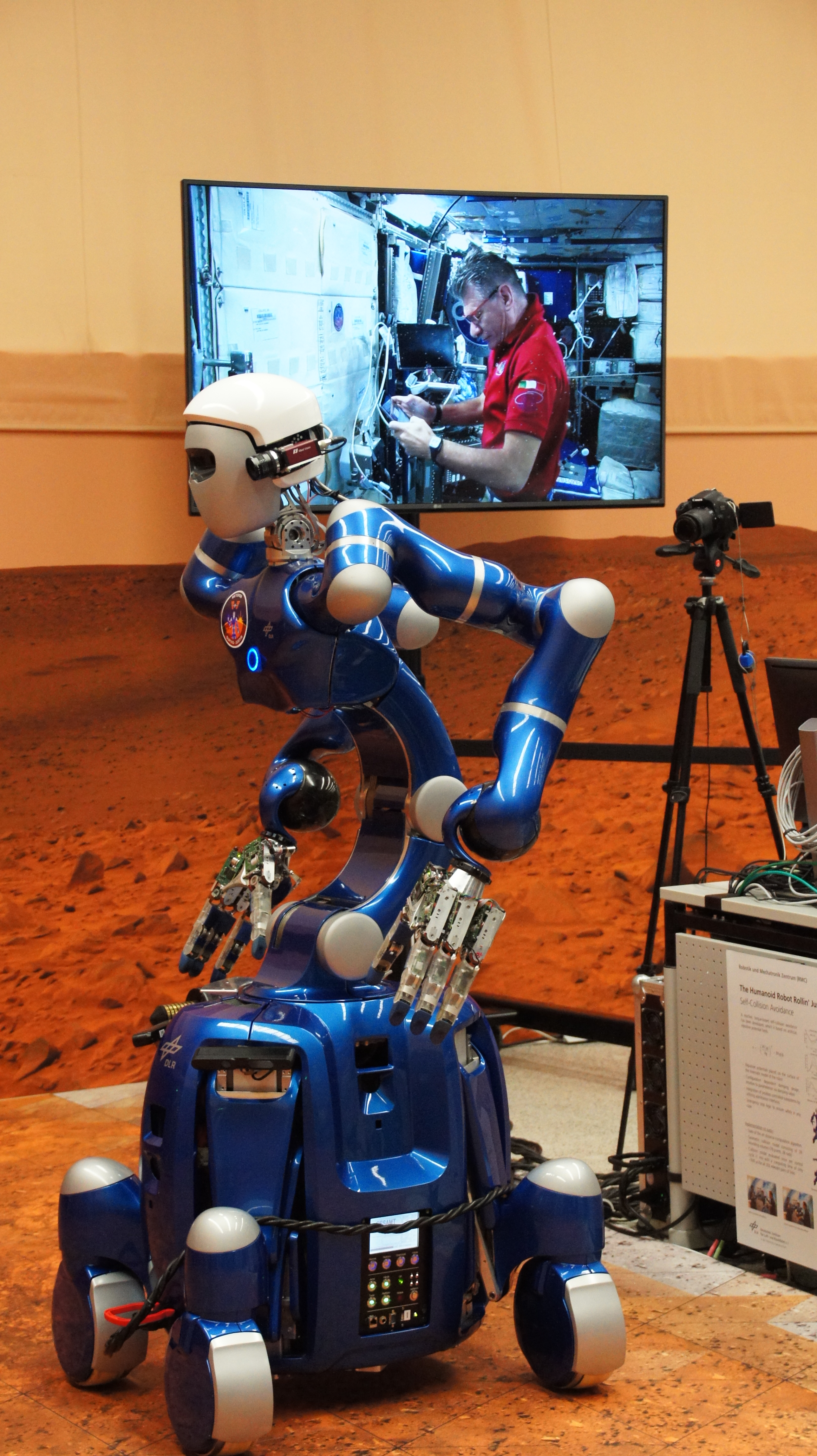 ESA astronaut Paolo Nespoli (right on screen) operated a rover in Germany from the International Space Station 28 August 2017. Part of ESA’s METERON project, the experiment with German Aerospace Center DLR’s robot, nicknamed Rollin’ Justin, is about developing ways to allow astronauts to control robots from orbit. This experiment saw Justin, based in Oberpfaffenhofen, Germany, in a Mars scenario tasked with diagnosing solar panels. Paolo, flying at 28 800 km/h and 400 km above Earth, worked with Justin to inspect three solar panels and find a malfunction. He then instructed Justin to plug in a diagnostic tool read and upload the error logs. These tests were chosen to enact future scenarios in which astronauts orbiting distant planets and moons can instruct robots to do difficult or dangerous tasks and set up base before landing for further exploration. ESA has run multiple experiments from the Space Station with robots to test the network, the control system and the robots on Earth. This is a new area for everybody involved and each aspect needs to be tested. This experiment, dubbed ‘SUPVIS-Justin’, focused on Justin and the user interface used to interact with the robot.